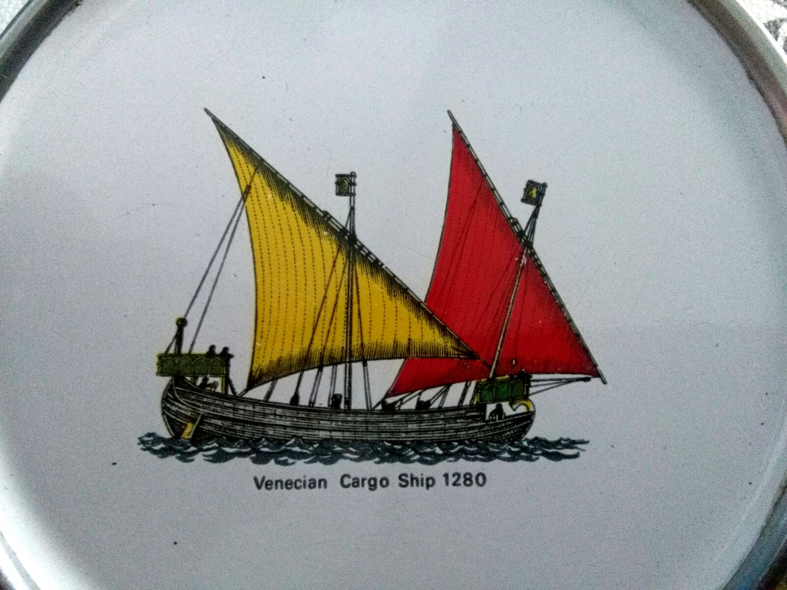 Venetian ship from 1287 taken from Barkozi - Photo taken from XIX century coloured ceramic dish